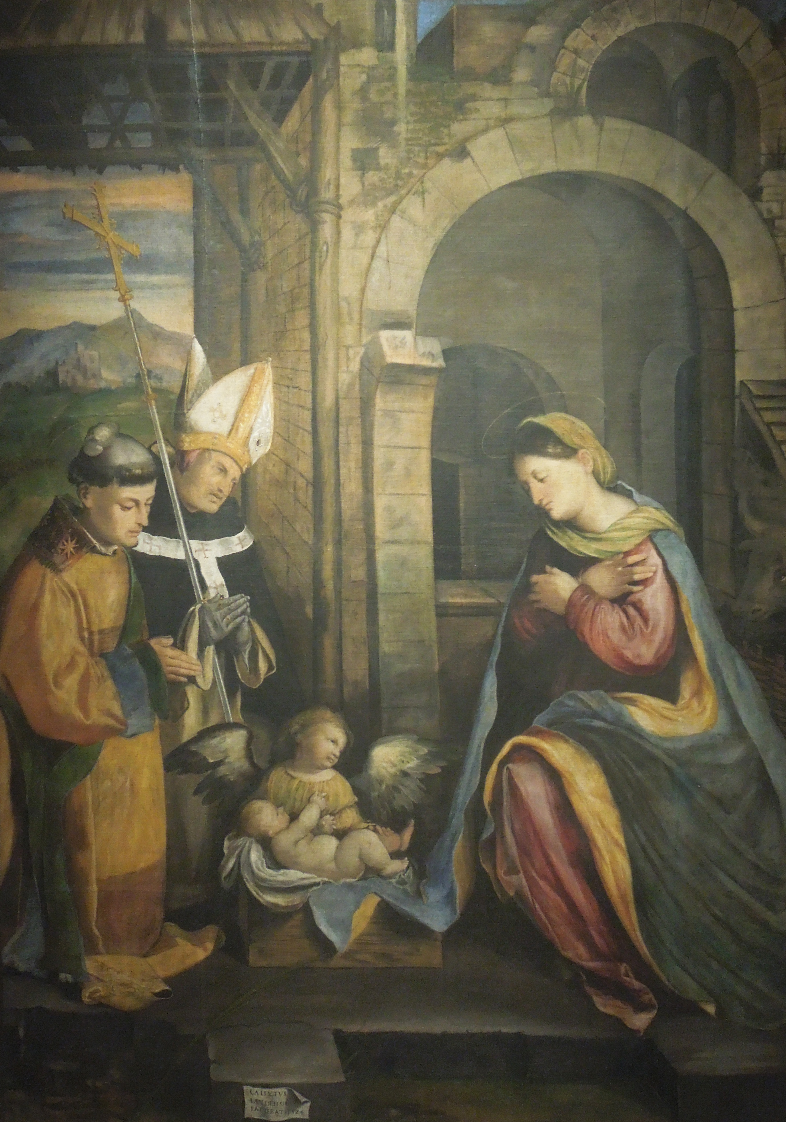 Callisto Piazza - The Virgin Adoring the Child, 1524